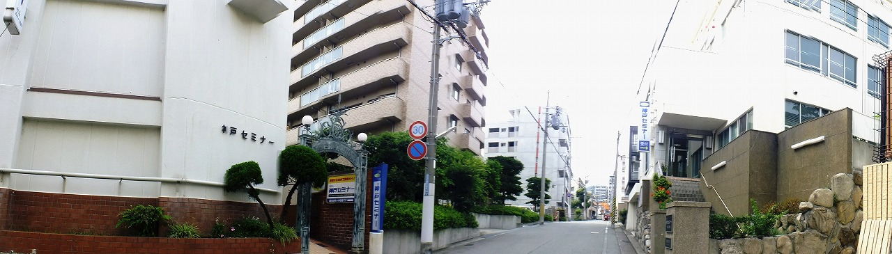 KOBE SEMINAR 学校法人 村上学園 予備校神戸セミナー